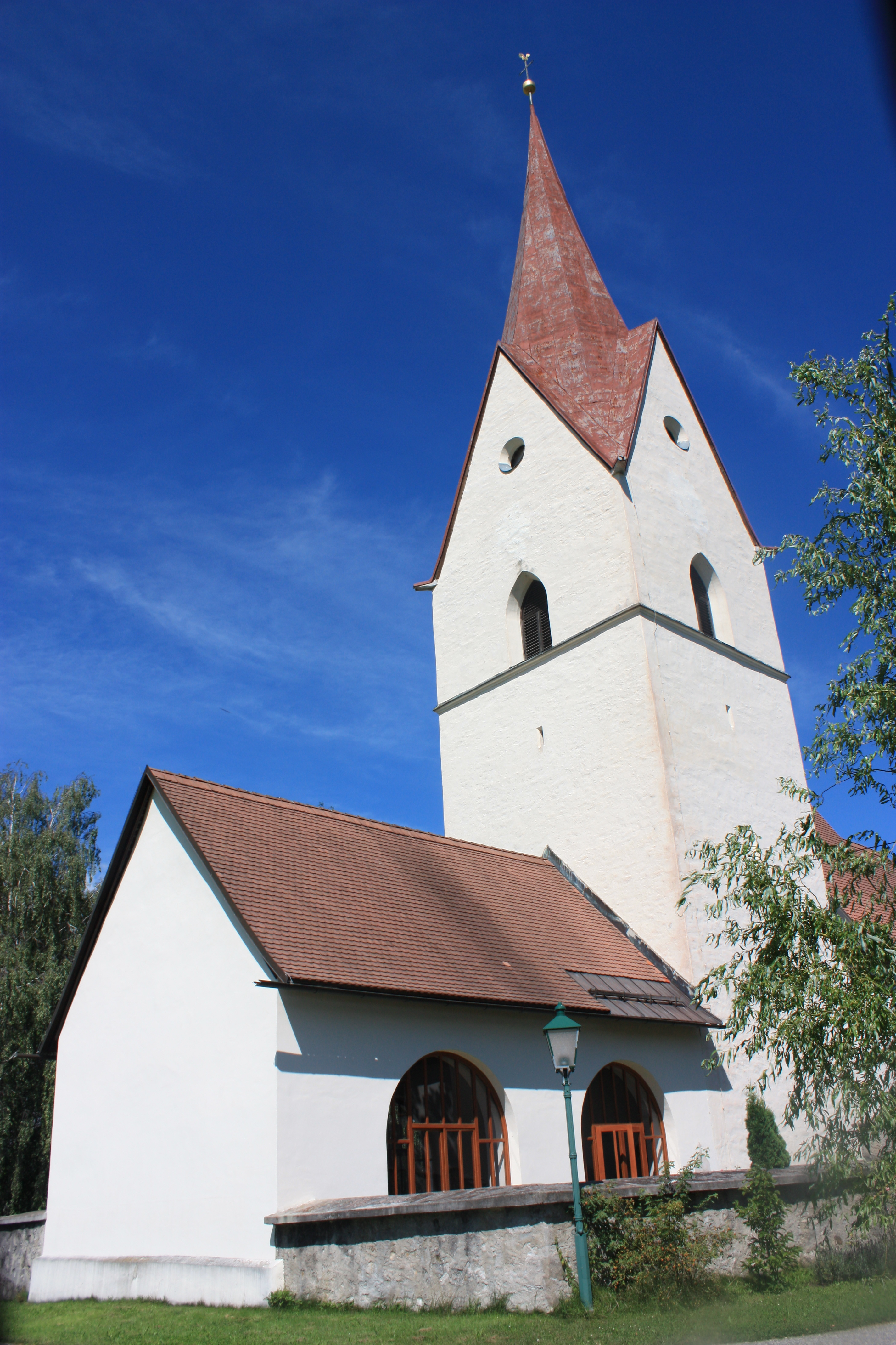 Parish church Saint Andrew Locality:Thörl-Maglern Community:Arnoldstein